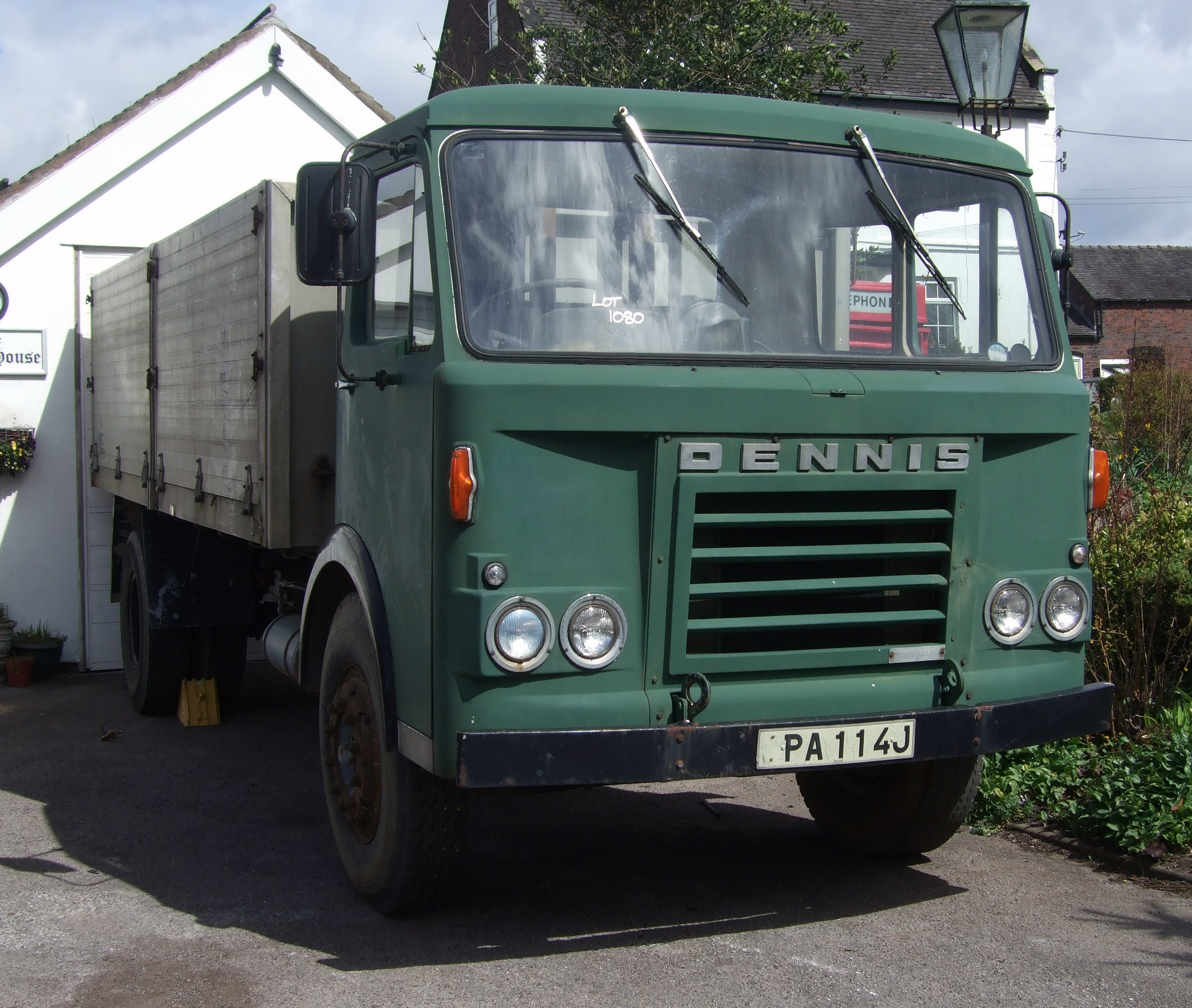 1971 Dennis Dominant before restoration